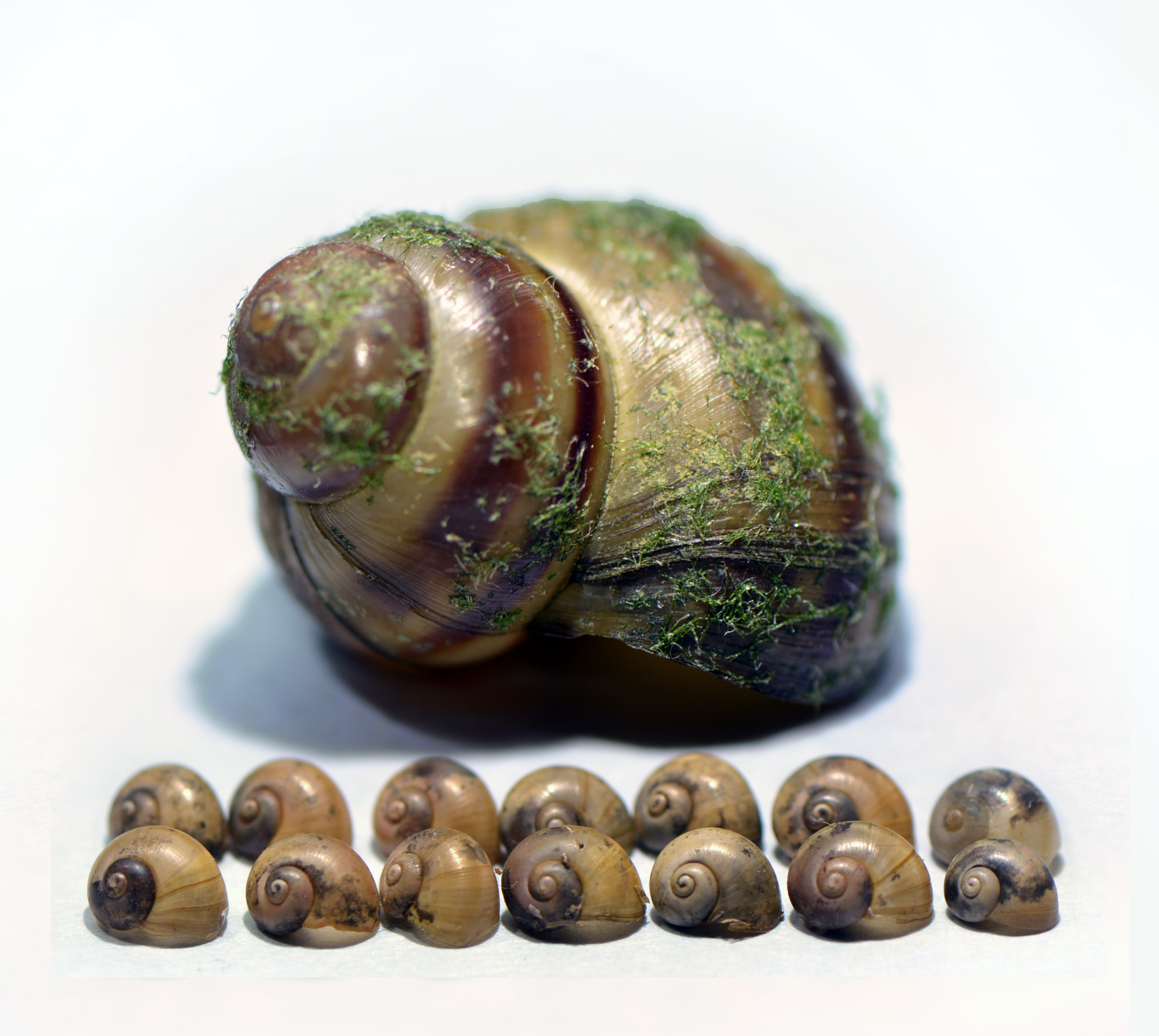 Young snails aquatic species Viviparus viviparus, the only species in which the female gives birth rather than lay eggs. The young develop in the shell of the mother. She died after the young people have left. Here young people were found dead (and their natural color) in the shell of the mother also died (because up out of the water with the surlaquelle branch it was fixed). There were two more young, but the shell was broken. Found in Lille on the edge of the Haute-Deûle on a part where the barges no longer circulate.